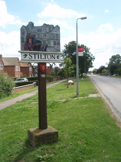 Village Sign Stilton proudly boasts two carved village signs. This one is sited on the main road or what was the Great North Road, before a dual carriageway by-pass and then a four lane motorway were constructed. This one depicts a coach laden with passengers and maybe some Stilton Cheese if it had come Via the Melton Mowbray area, outside the Bell coaching inn.